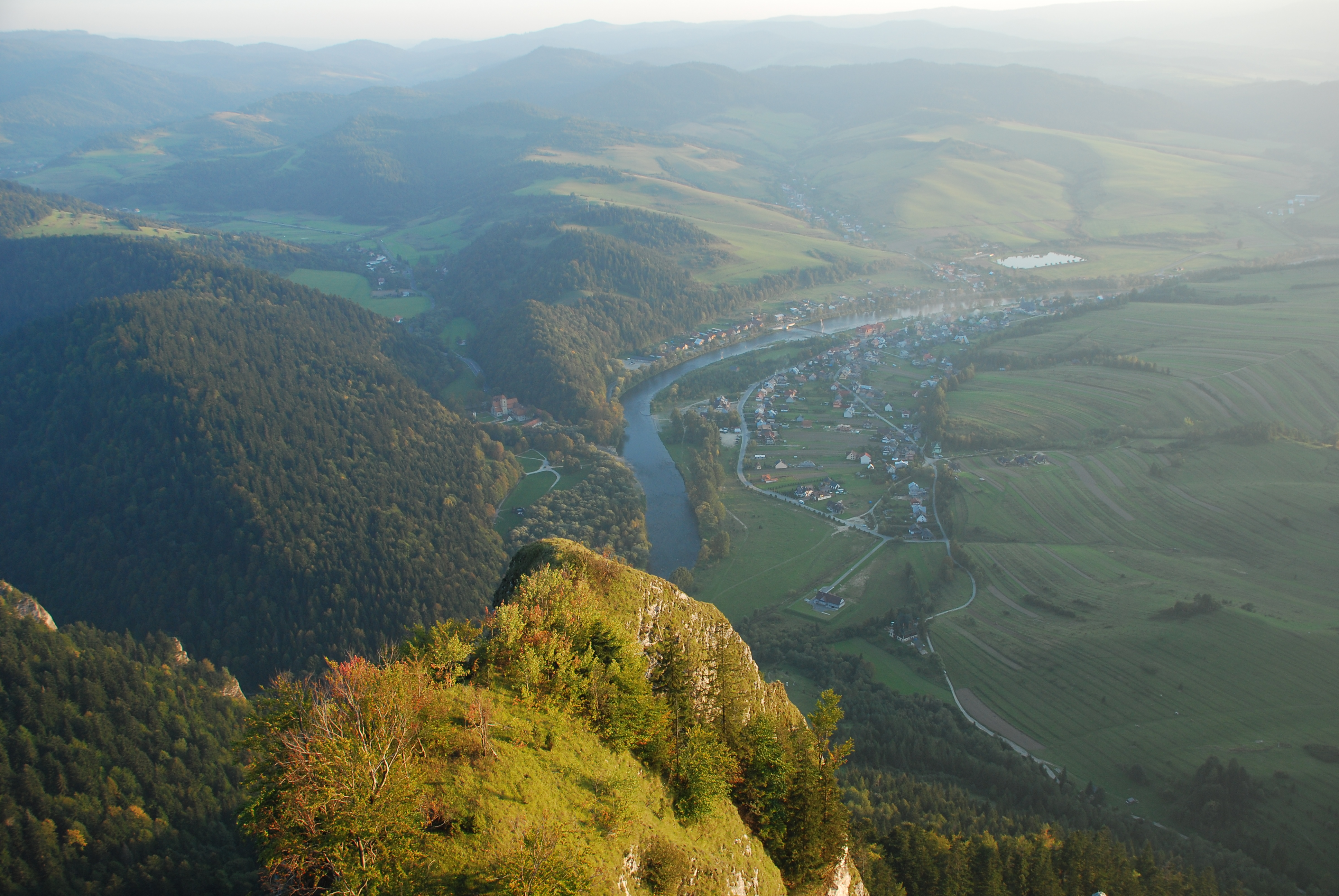 Sromowce Niżne